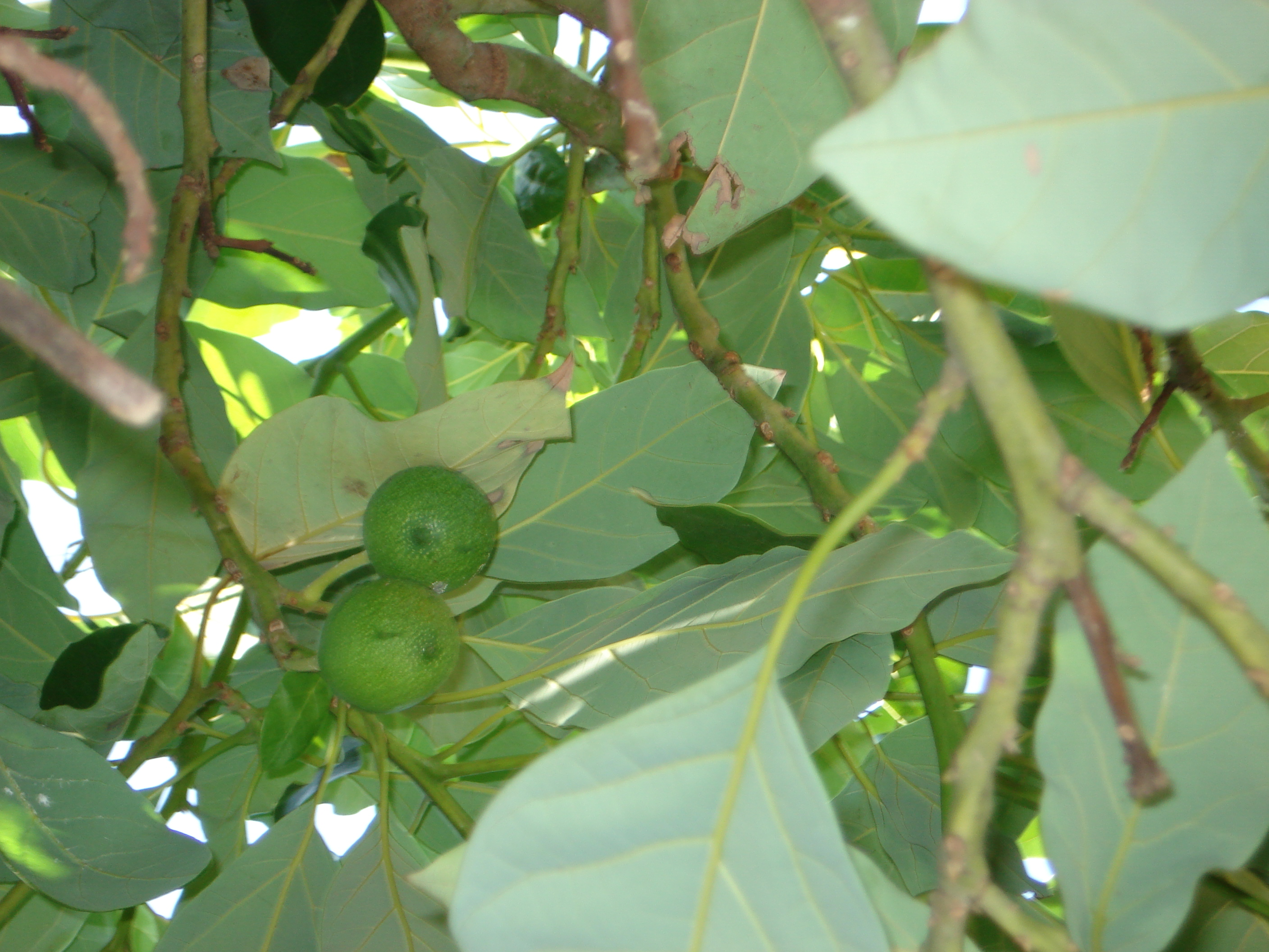 Avocado tree having fruited in the South of France (USDA 8b) - 2009 September